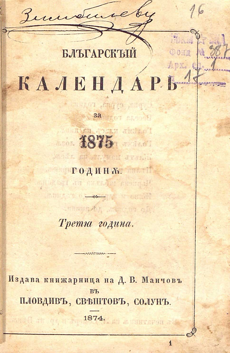 Bulgarian Calendar for 1875 by Dragan Manchov-01